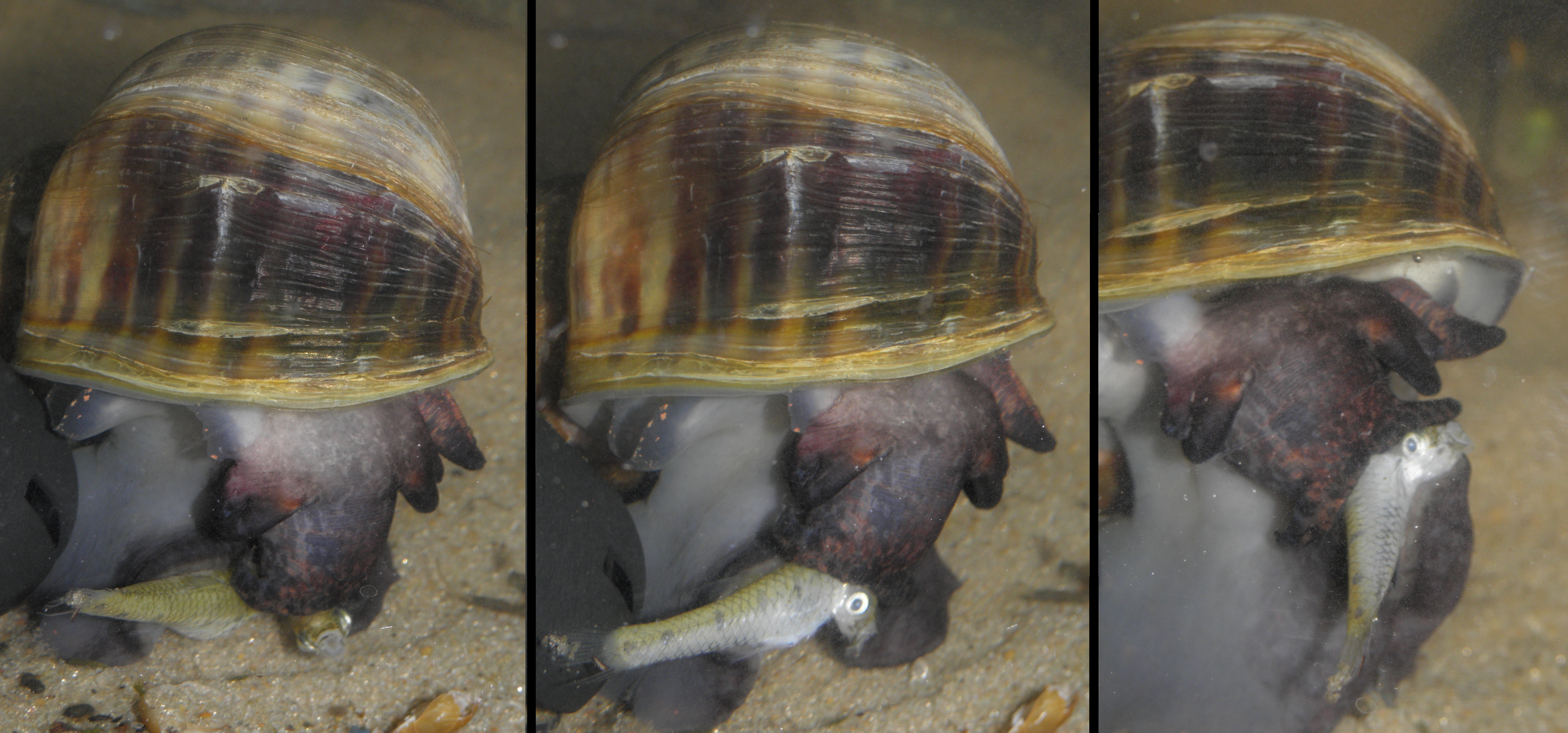 Channeled applesnail (Pomacea canaliculata) eating a Ten spotted live-bearer (Cnesterodon decemmaculatus).